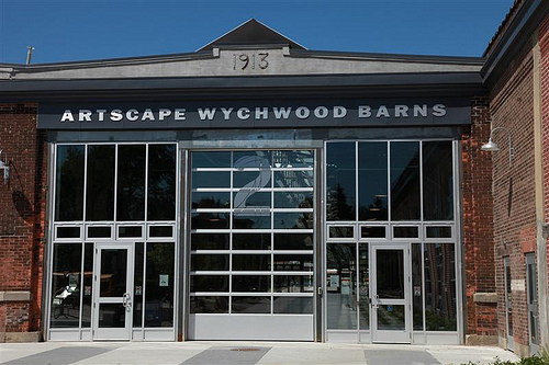 Artscape Wychwood Barns in Toronto, Ontario, Canada.